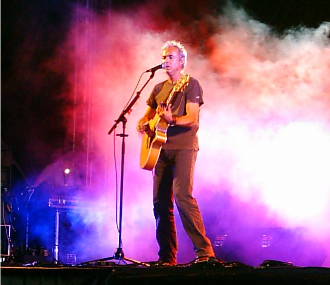 Part of photo from Filarmónica Gil Concert with João Gil